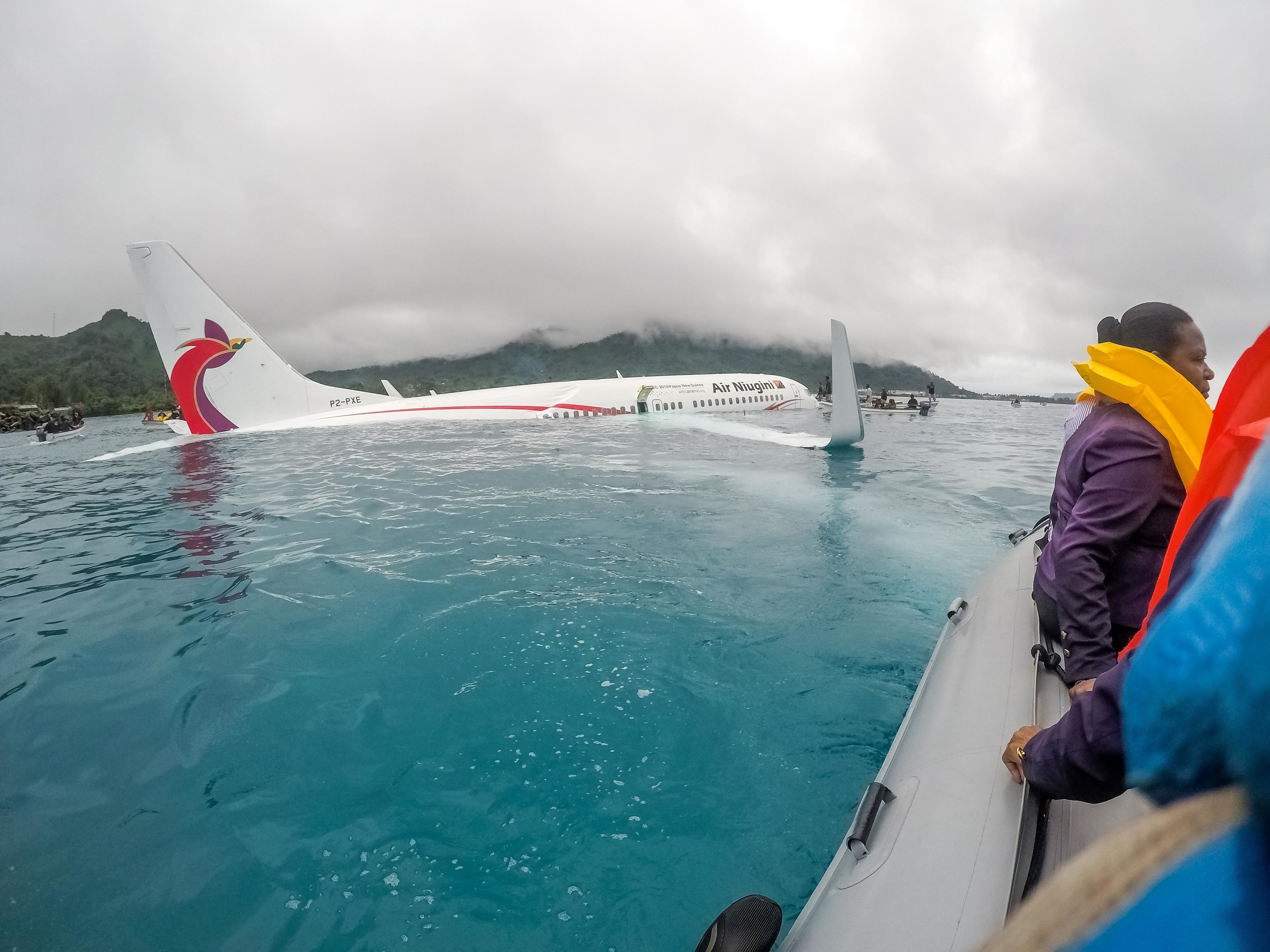 U.S. Sailors assigned to Underwater Construction Team (UCT) 2 assist local authorities in rescuing the passengers and crew of Air Niugini flight PX56 to shore following the plane ditching into the sea on its approach to Chuuk International Airport in the Federated States of Micronesia, Sept. 28, 2018. (U.S. Navy photo by Lt. Zach Niezgodski)